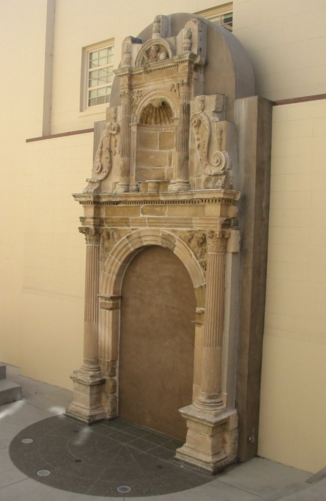 Photograph taken at the University of San Francisco, Lone Mountain campus, showing the old church portal taken by William Randolph Hearst from Santa Maria de Ovila monastery in Spain. The portal was first built around 1650 in Trillo, Guadalajara, Spain, then removed and transported to San Francisco in 1931. It was rebuilt in 1965 at the M. H. de Young Memorial Museum, then donated to USF in 2002 and erected in 2008 as part of Kalmanovitz Hall, the backdrop to Ovila Amphitheater.